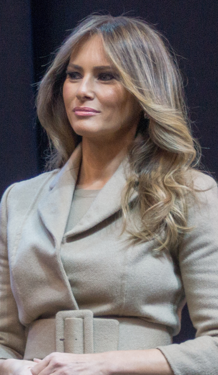 Melania